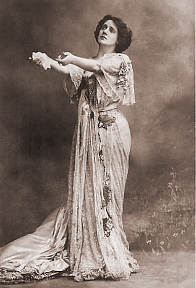 Actress Mrs Patrick Campbell (1865-1940)